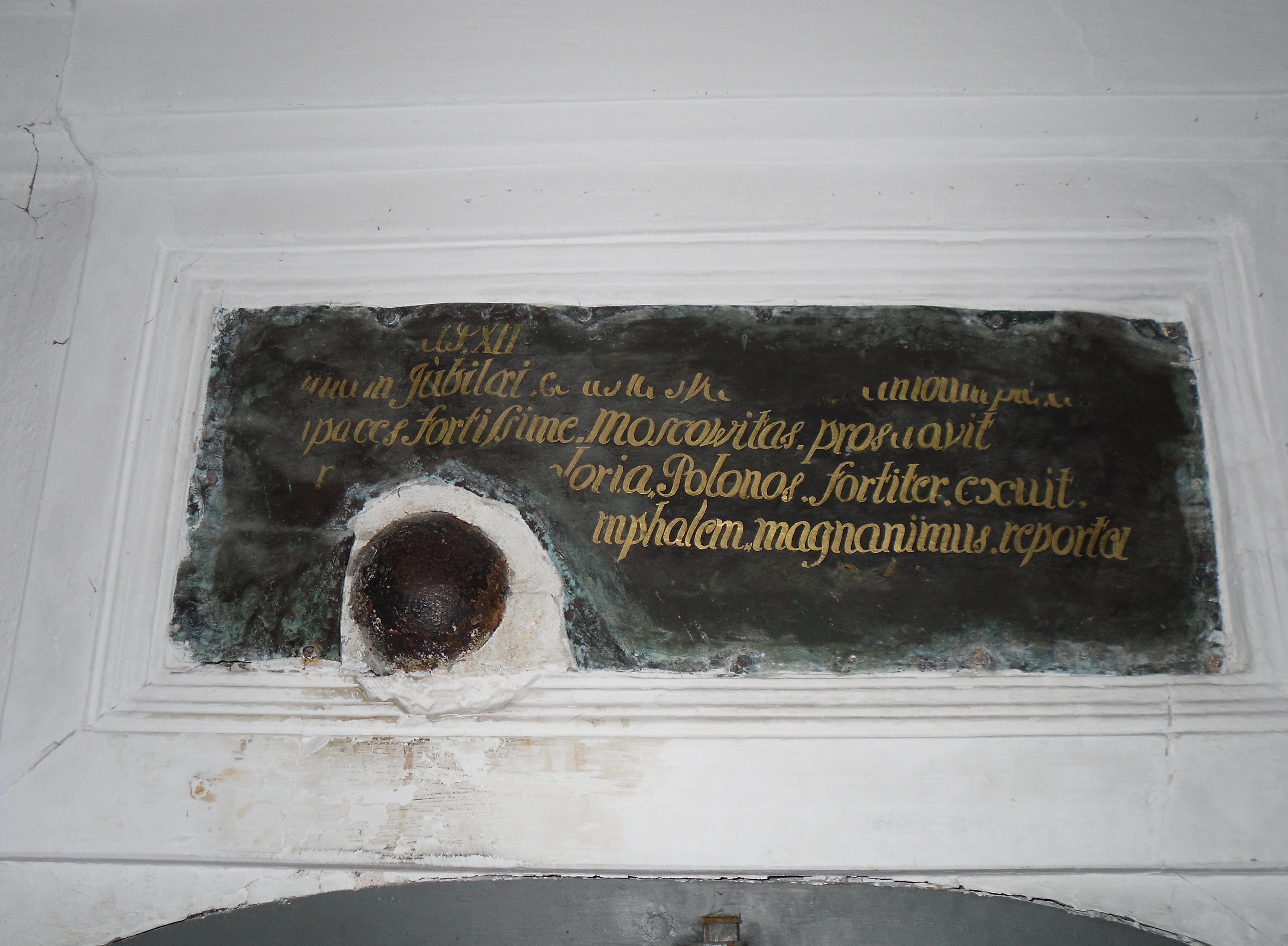 A cannon ball in the Church of Älvsborg Fortress, Sweden